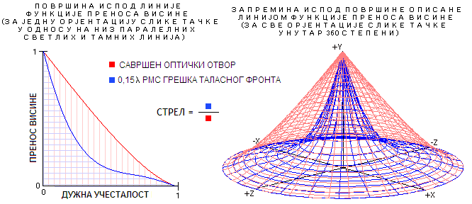 ВЕЗА ФУНКЦИЈЕ ПРЕНОСА ВИСИНЕ И СТРЕЛ РАЦИА